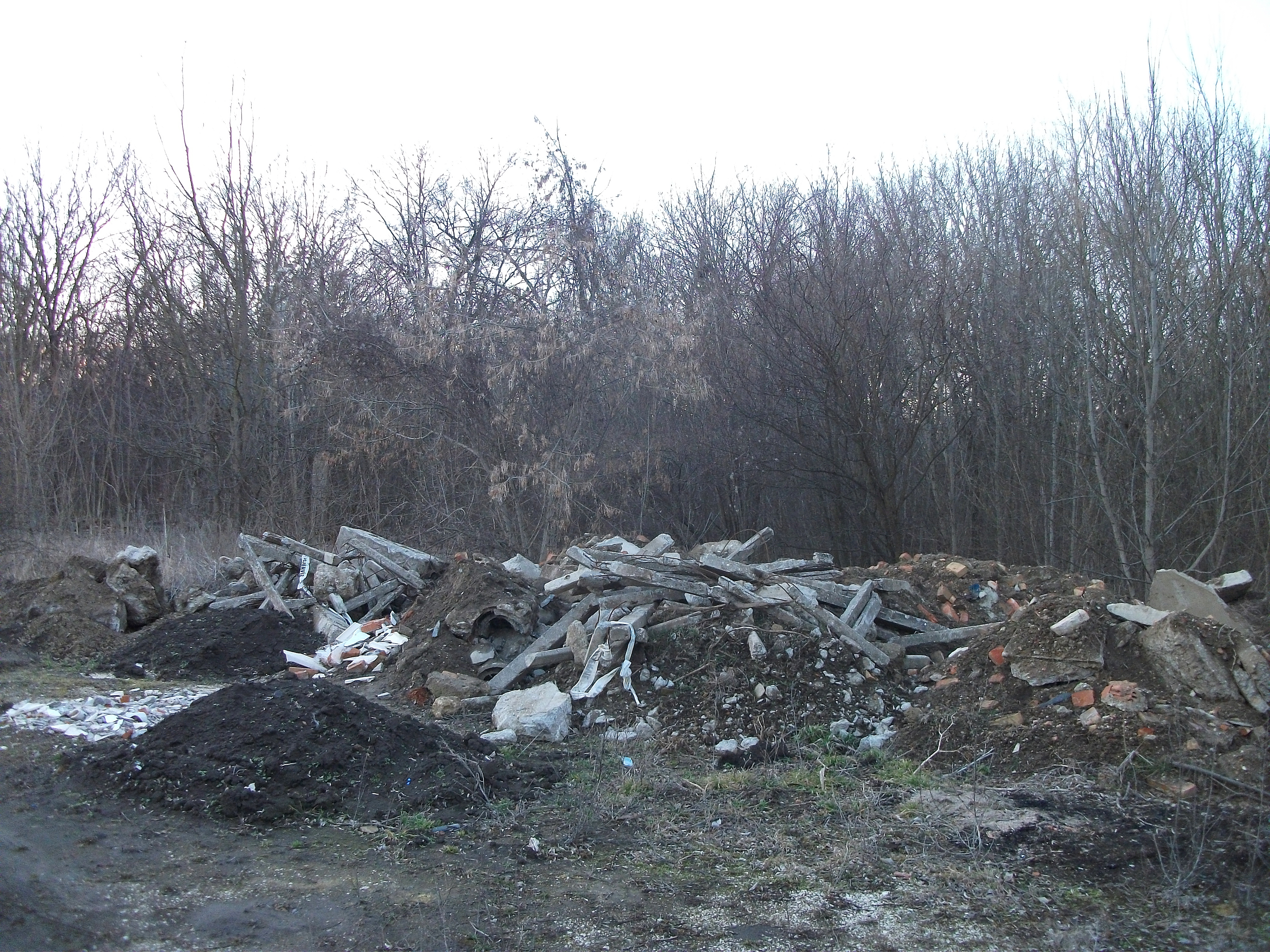 Construction waste in Zichyújfalu, Hungary.